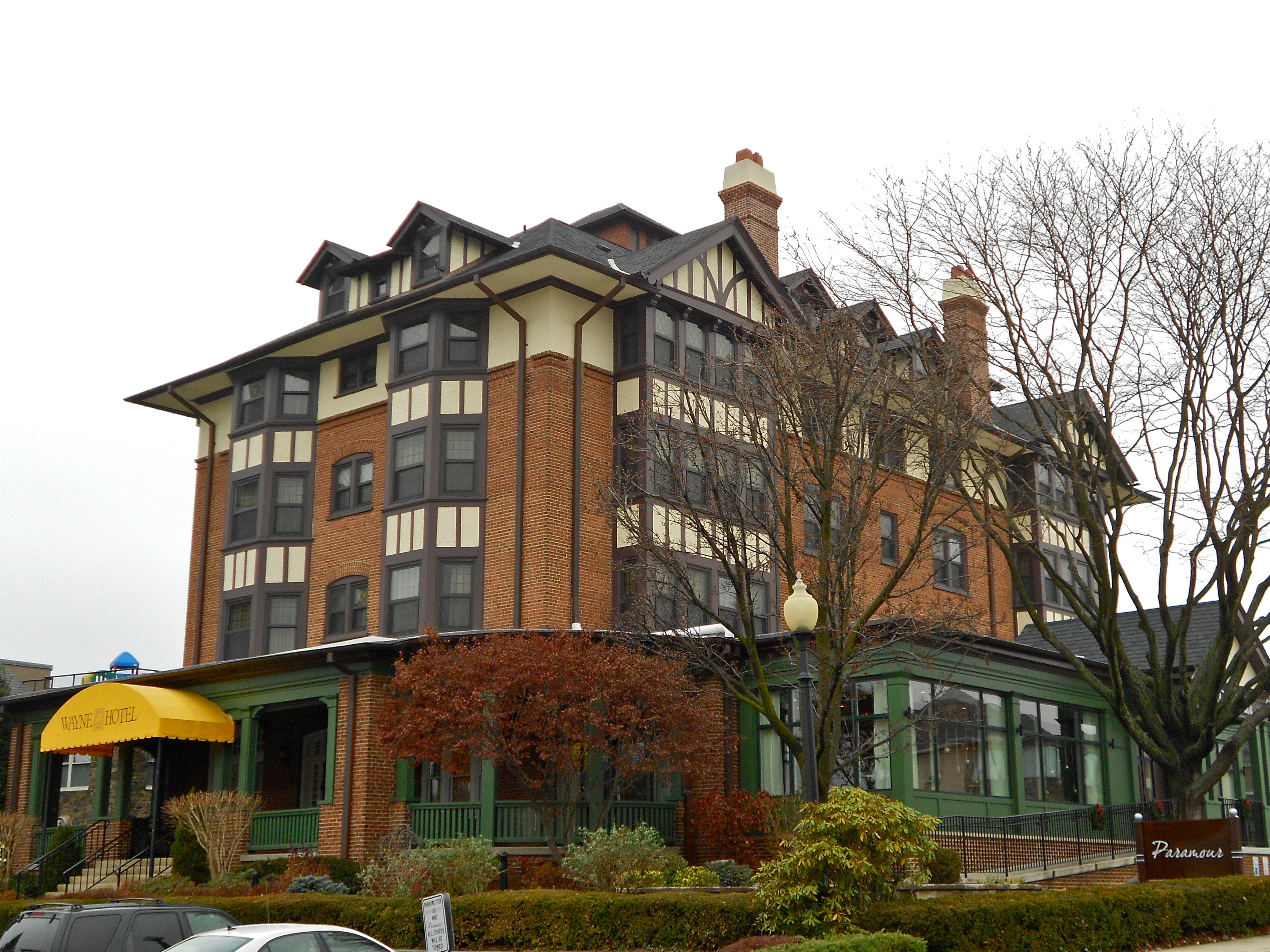 Wayne Hotel on the NRHP since November 5, 1987. At 139 East Lancaster Avenue, Wayne, Radnor Township, Delaware County, Pennsylvania. Also in the NRHP Downtown Wayne Historic District.